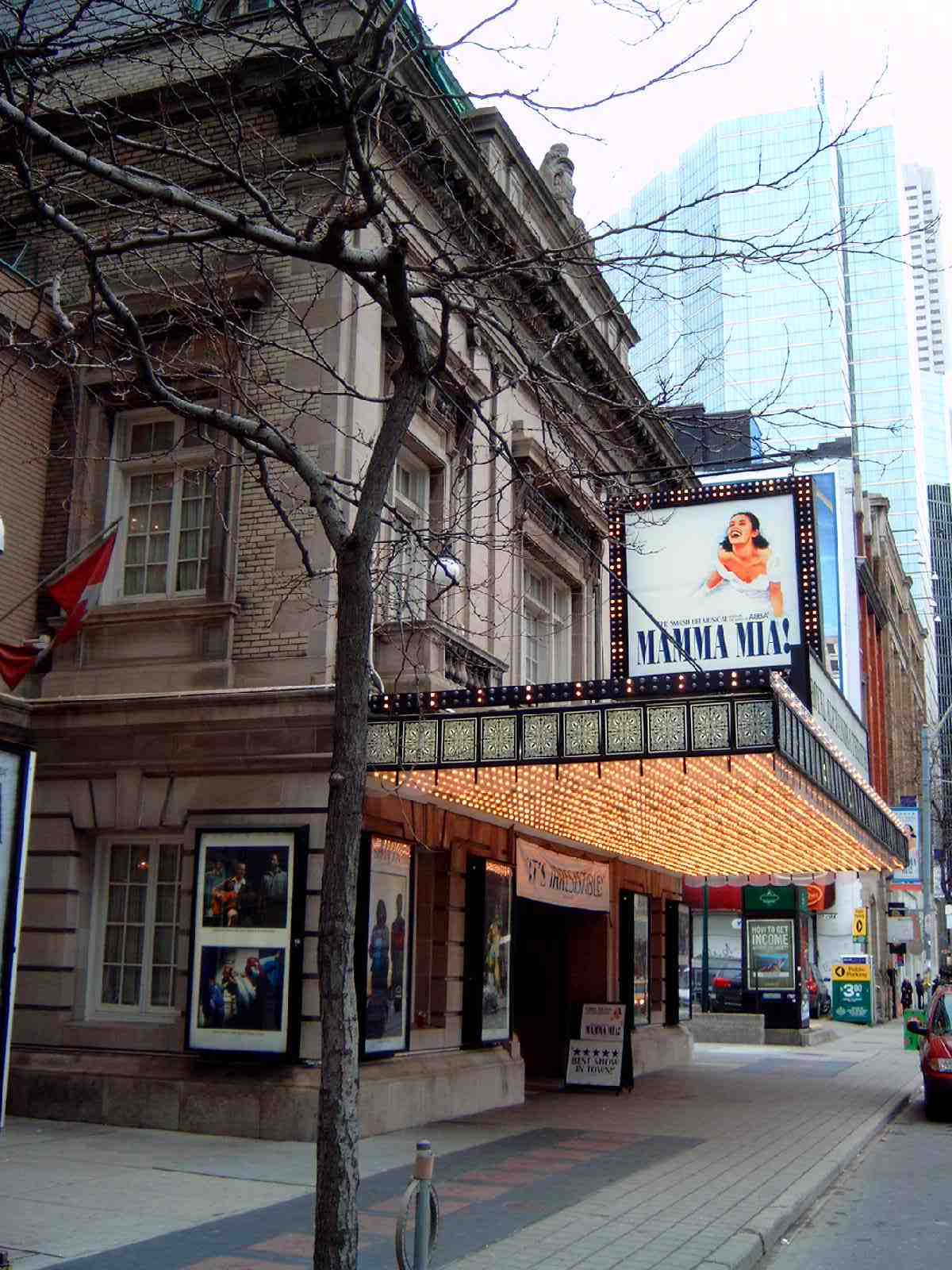 Toronto, Ontario, Canada: Royal Alexandra Theatre